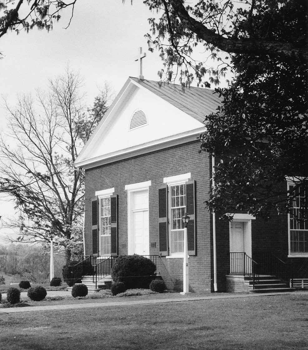 A vintage photograph of Saint Stephens Episcopal Church in Forest, Bedford County, Virginia built in 1825.